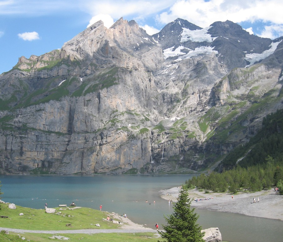 From left to right, Rothorn (3 280 m), Wyssi Frau (3 648 m), Blüemlisalphorn (3 661 m, the highest local point), Oeschinenhorn (3 486 m), all peaks of the Blüemlisalp massif, dominating "Oeschinensee" lake.